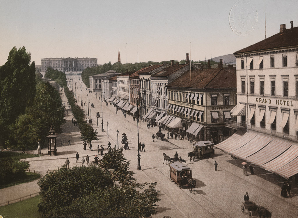 Tittel / Title: 7086. Christiania. Carl Johans Gade med Slottet Dato / Date: ca 1890-1900 Fotograf / Photographer: ukjent / unknown Sted / Place: Oslo, Karl Johans gate Eier / Owner Institution: Nasjonalbiblioteket / National Library of Norway Lenke / Link: Bildesignatur / Image Number: bldsa_FA0673